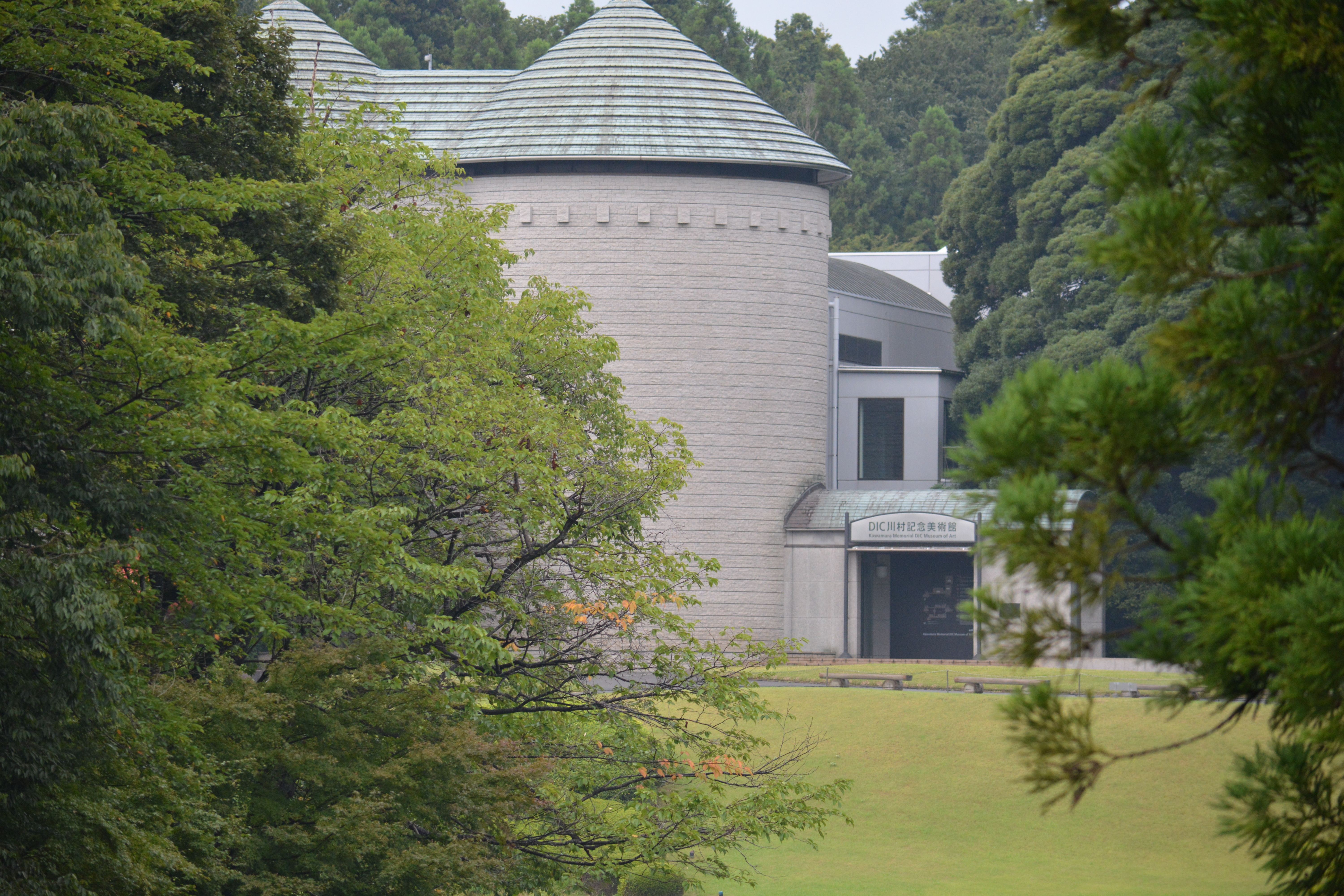 View onto the entrance of the museum - taken across the lake.